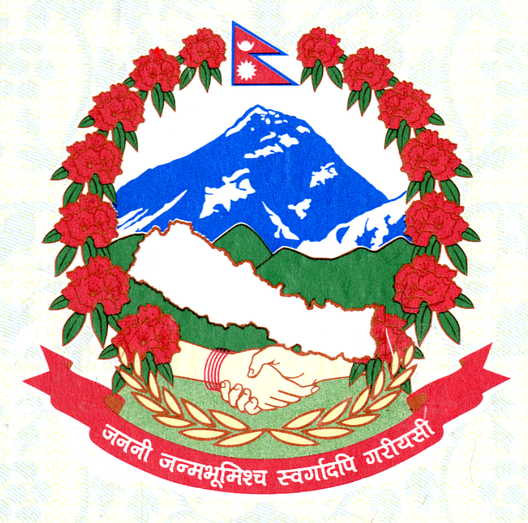 . National Emblem of Nepal.